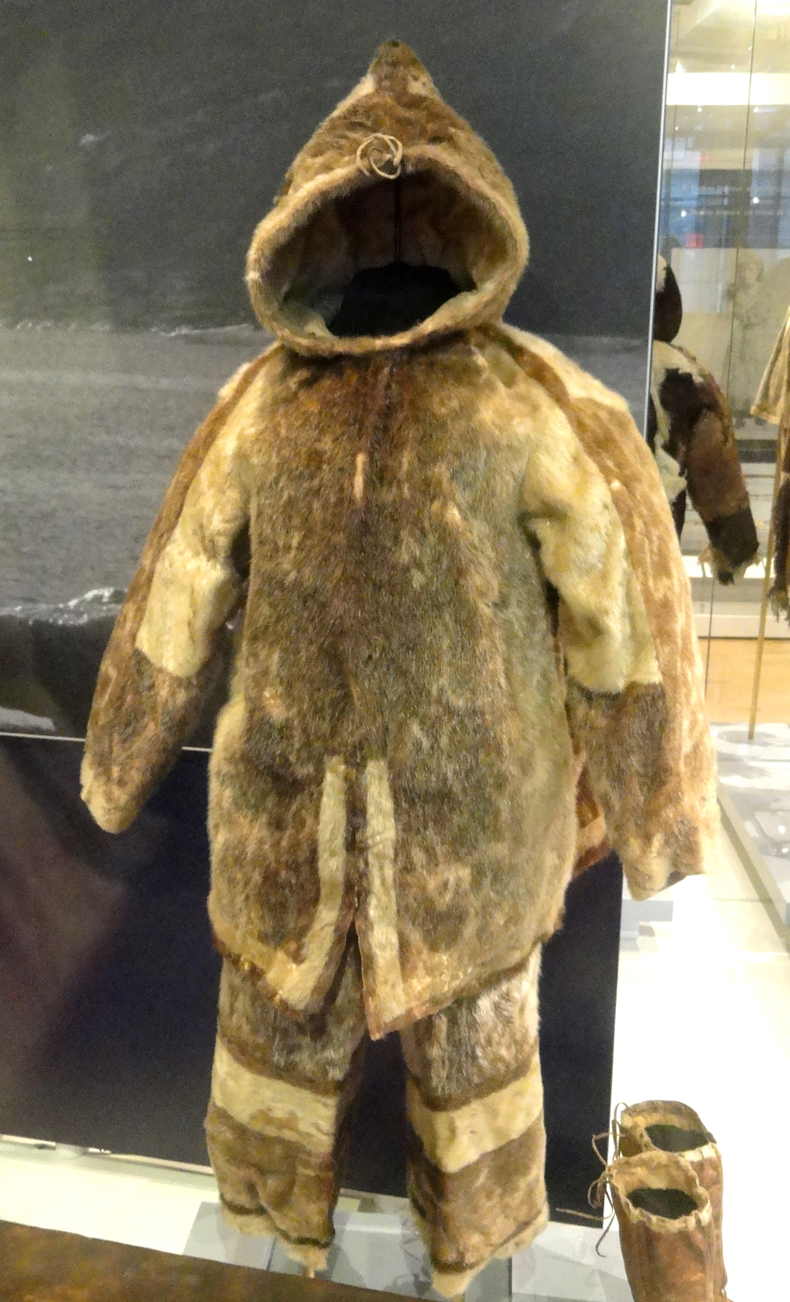 Exhibit in the Royal Ontario Museum, Toronto, Ontario, Canada. Photography was permitted in the museum. I took this photograph and release it into the public domain.